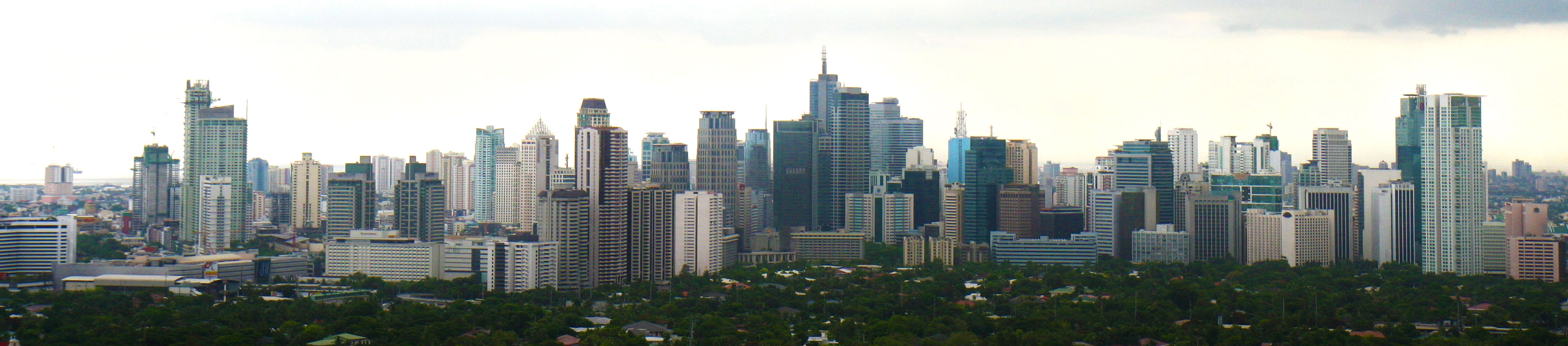 Roofdeck view from Fairways in Fort Bonifacio Global City.